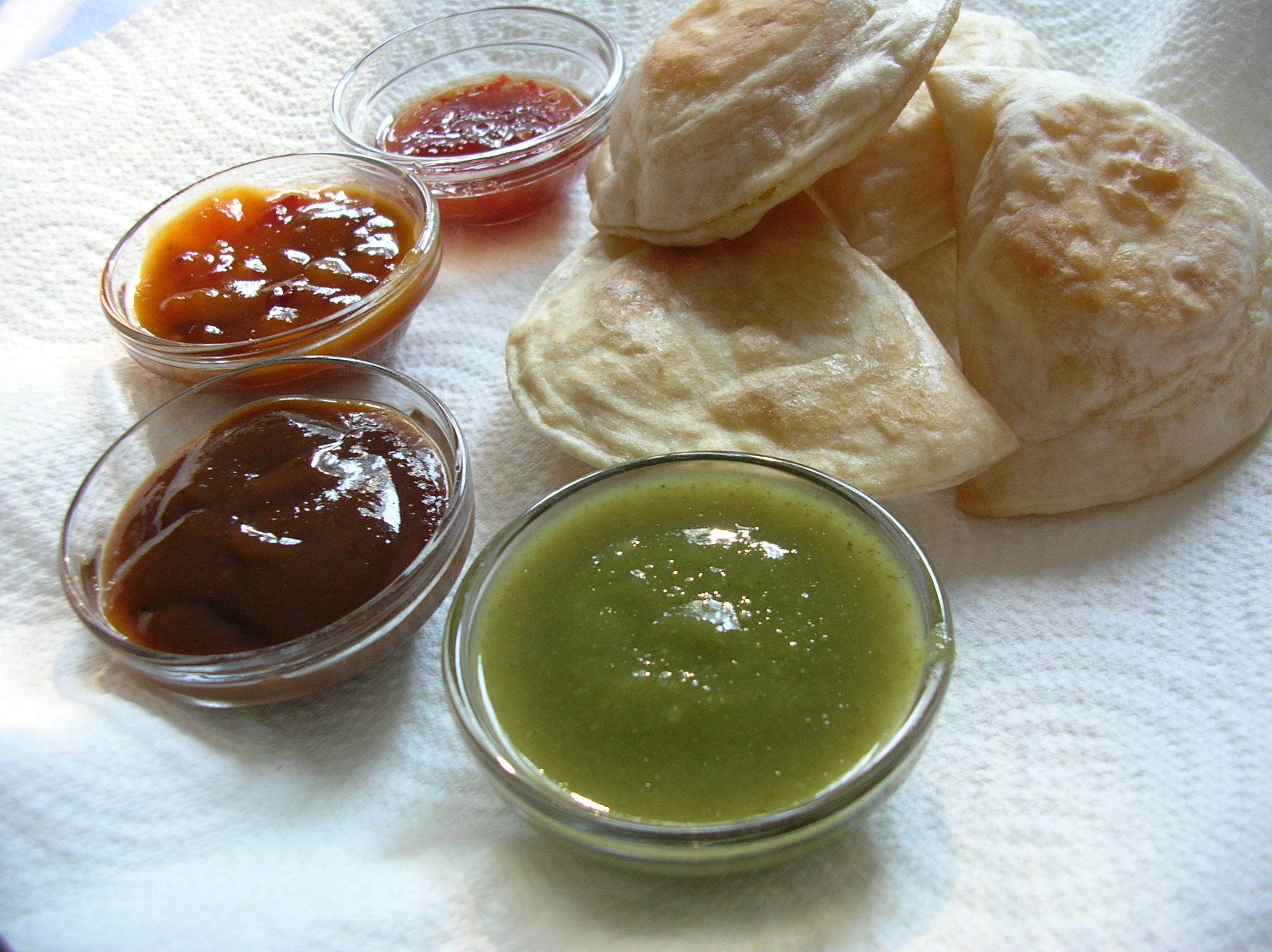 "Samosas" and four different sauces: Red Chile Sauce, Apricot Chipotle Sauce, Pakoda Chutney, Green Chile Sauce